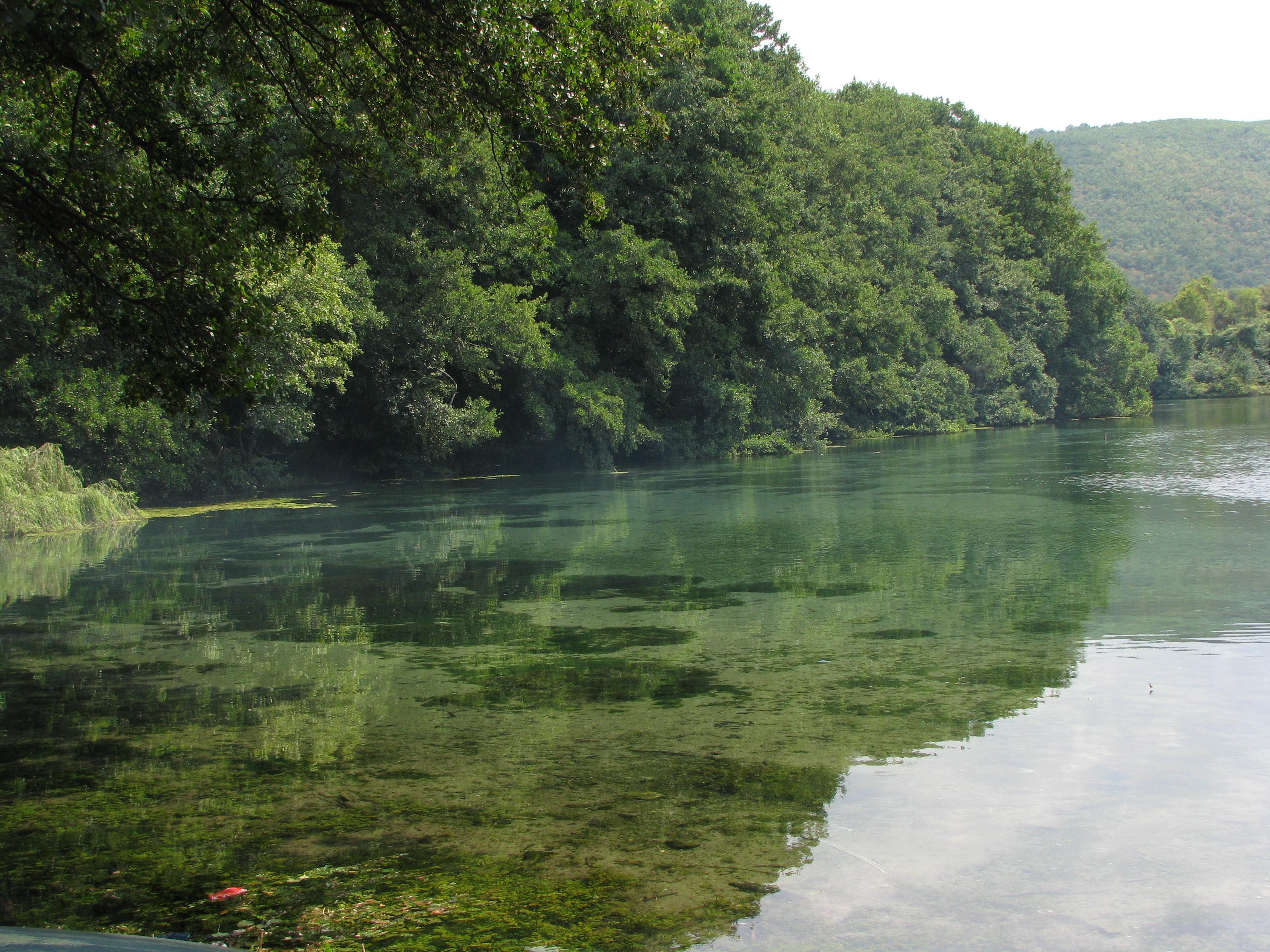 Ohrid Lake